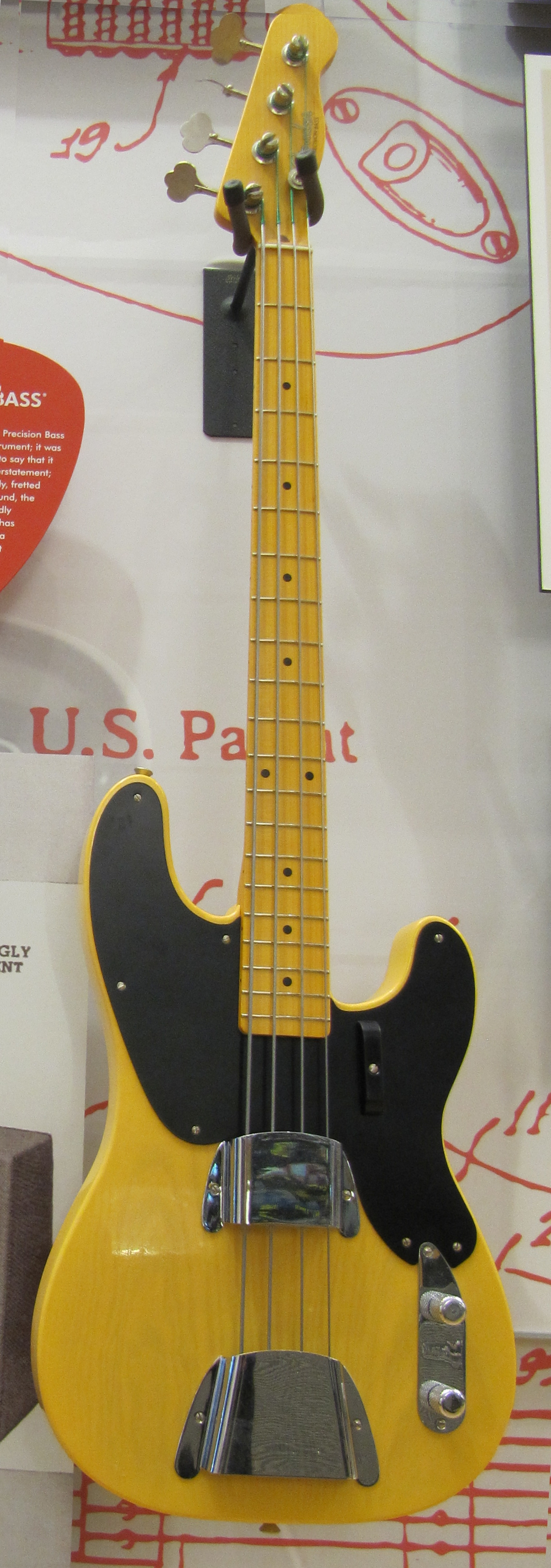 Fender Guitar Factory museum 14. 1951 Precision Bass model